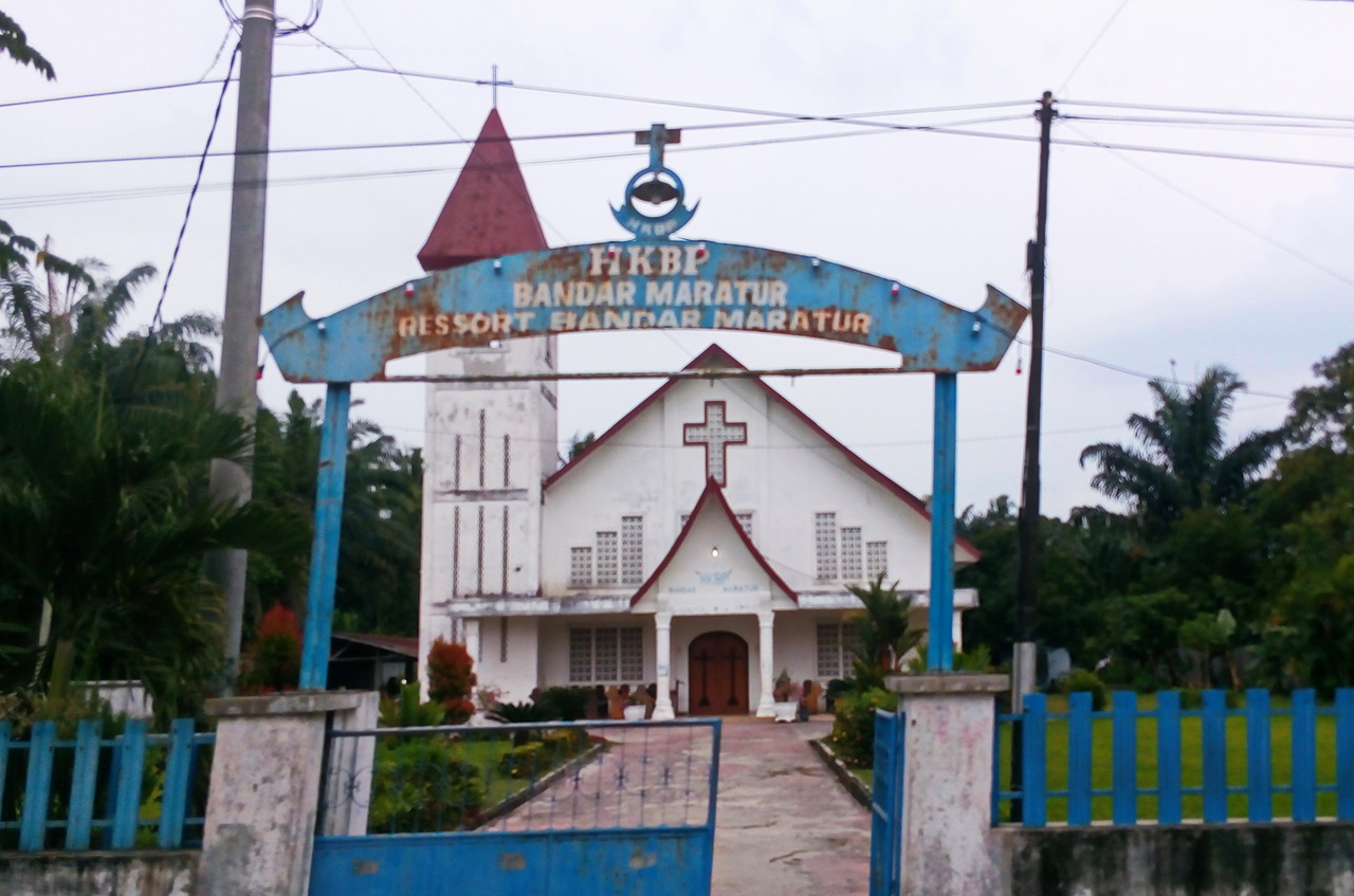 HKBP Bandar Maratur, Church in Bandar, Kec. Bandar, Simalungun